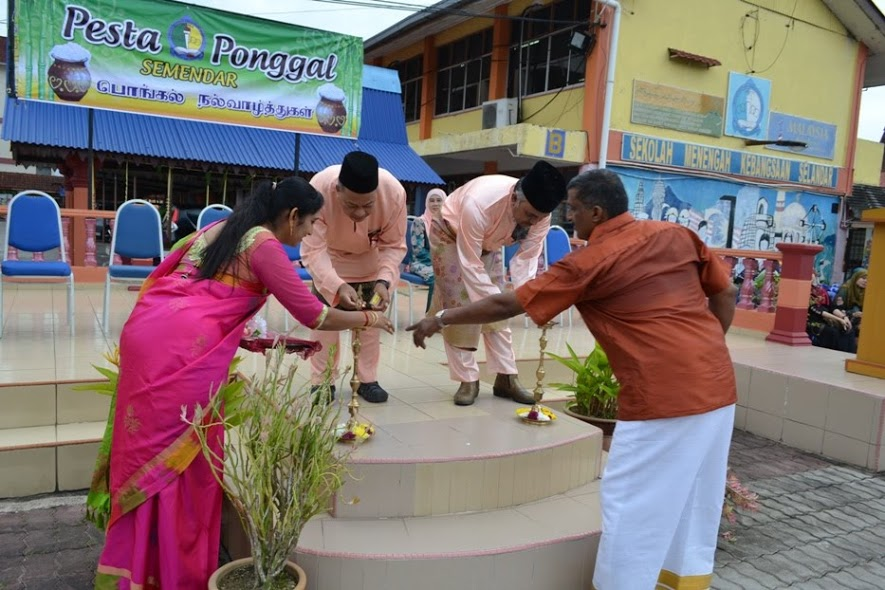 PONGGAL 5